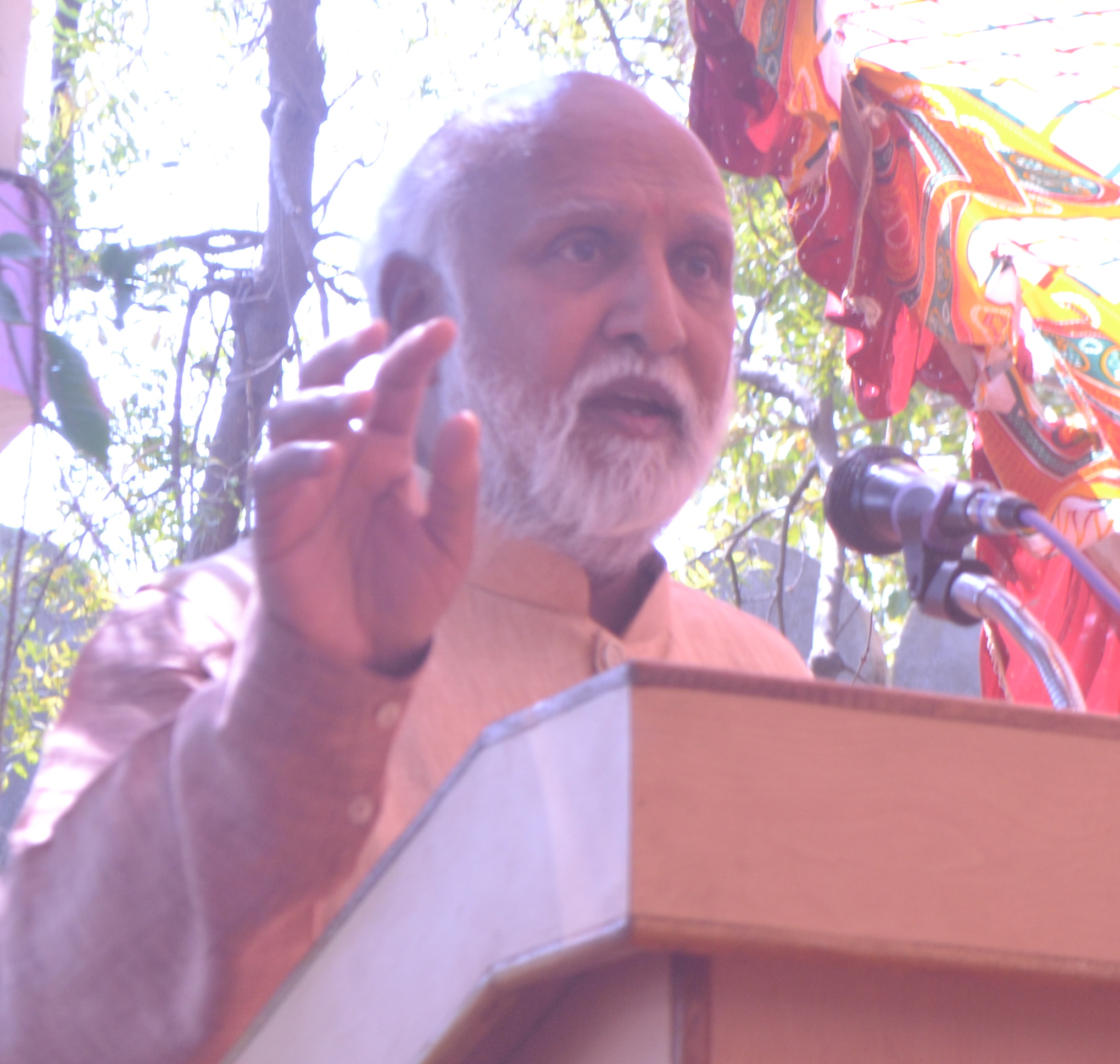 Harish Meenashru at Dakor on the inauguration function of Ravji Patel Smarak on 11 February 2017.